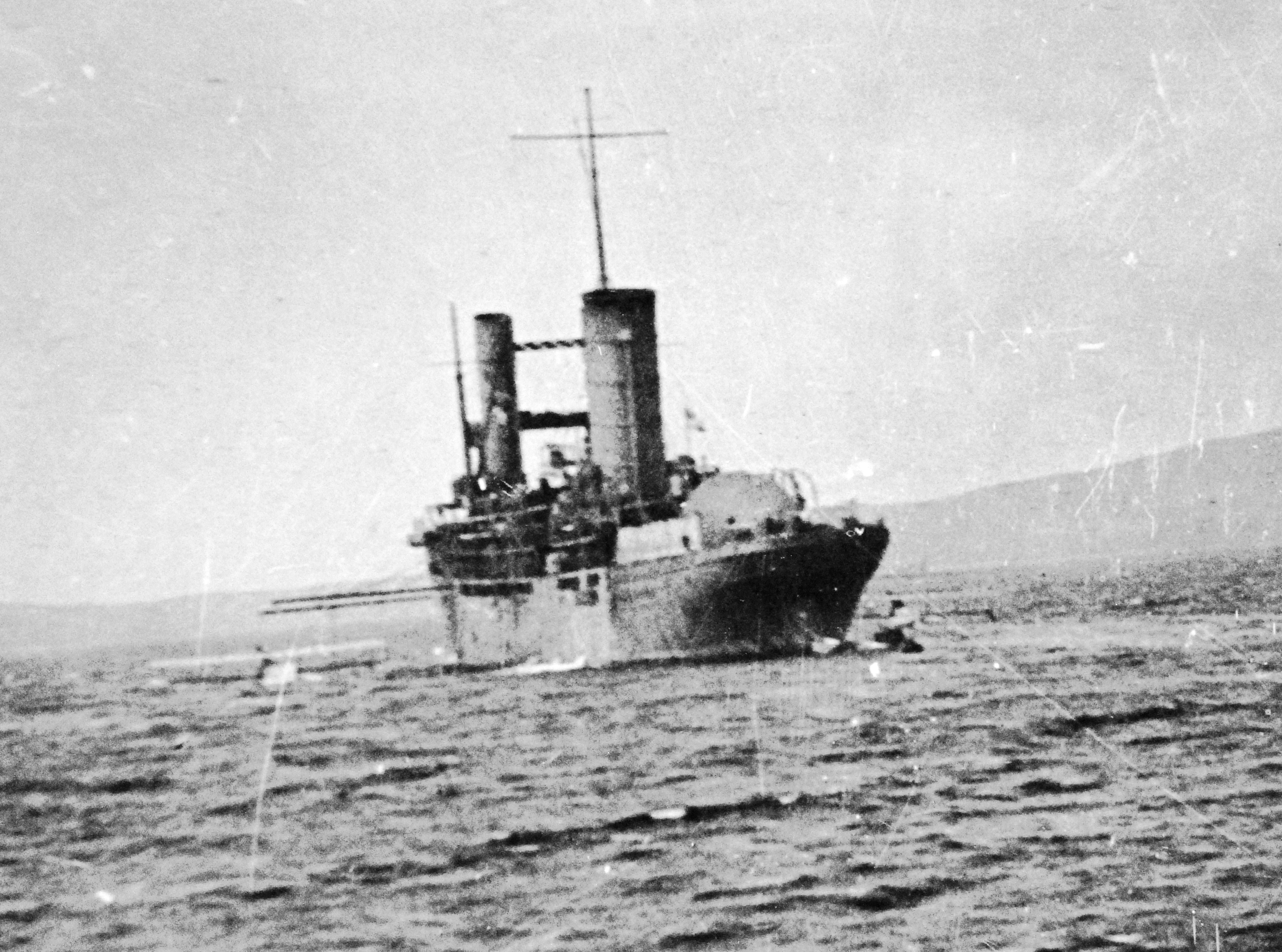 Lot 9609-4: Royal Navy (British) during the First World War. Curious view of HMS “aircraft carrier” Campania, the famous Cunard liner, and which was attached to the Grand Fleet. Her fore funnel was removed and replaced by two thin funnels wide apart of which the port one is seen in the photograph. She was sunk in a collision in the Firth of Forth, November 5, 1918. Collection was transferred from a British government source in 1920 to the Library of Congress. (9/18/2015).